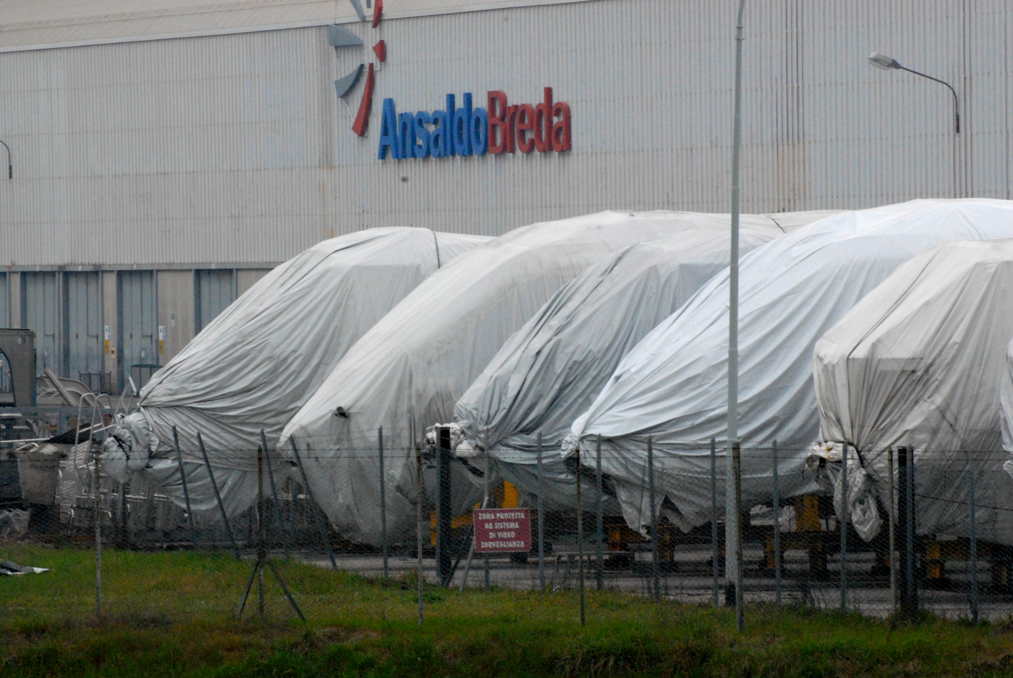 Photos from the AnsaldoBreda factory in Pistoia, Italy. Mothballed rolling stock in the external yard. Most of the trains are IC4 trainsets waiting to be delivered to DSB after the solving of the current technical problems